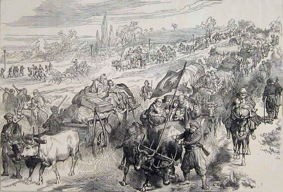 Turkish Refugees from the district of Tirnova coming into Shumla